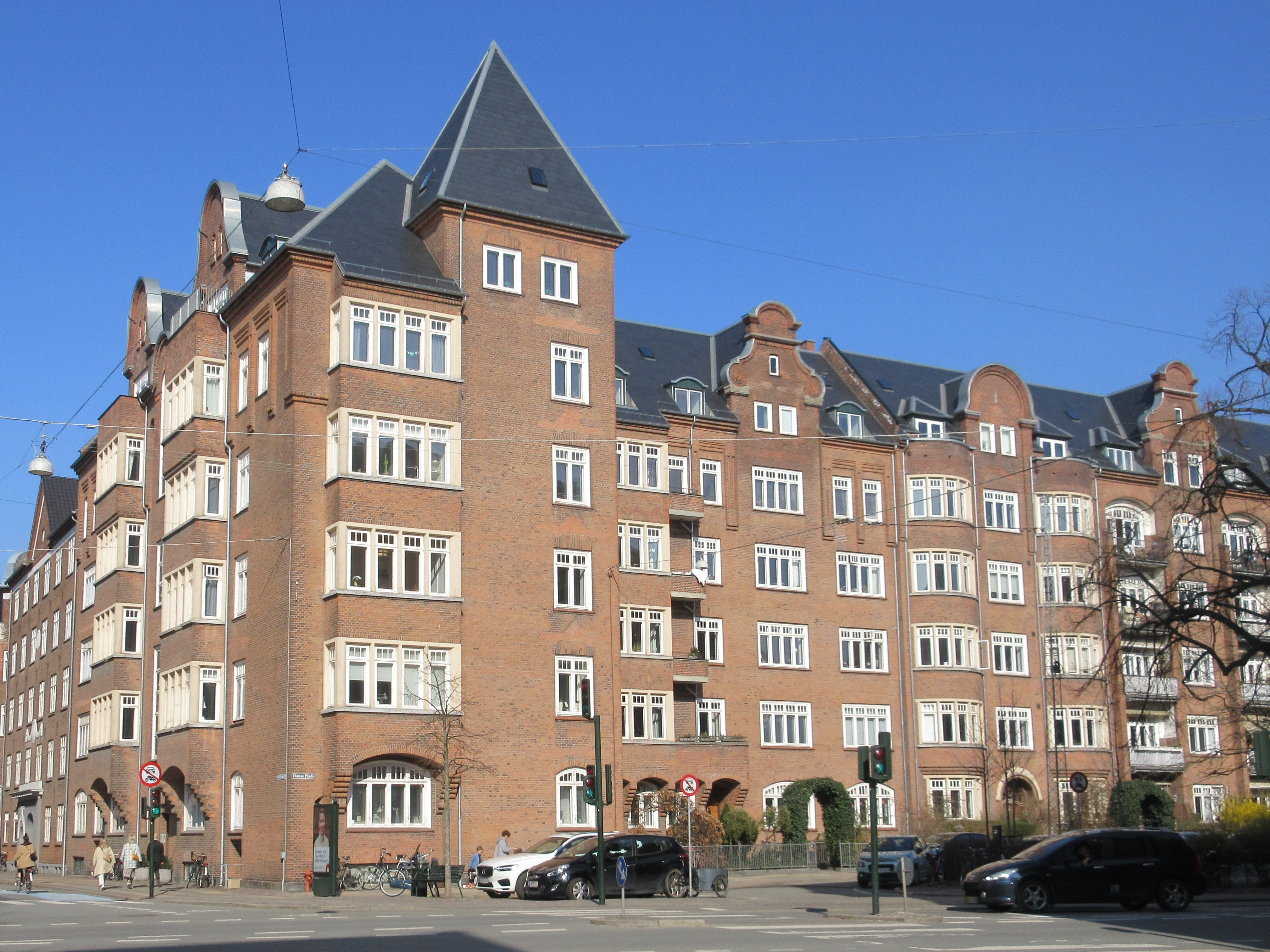 Danas Plads in Frederiksberg, Denmark